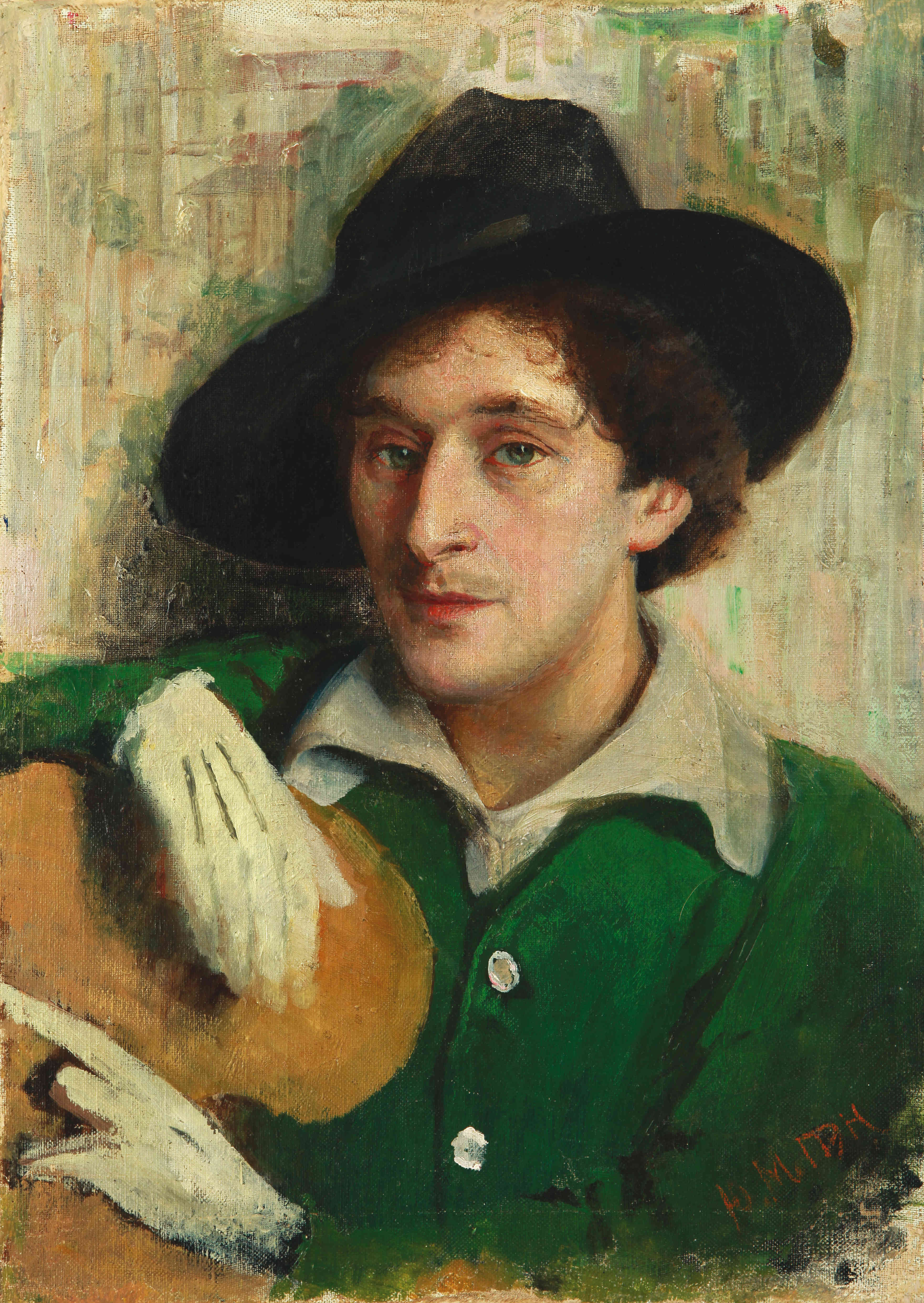 Portrait of Marc Chagall